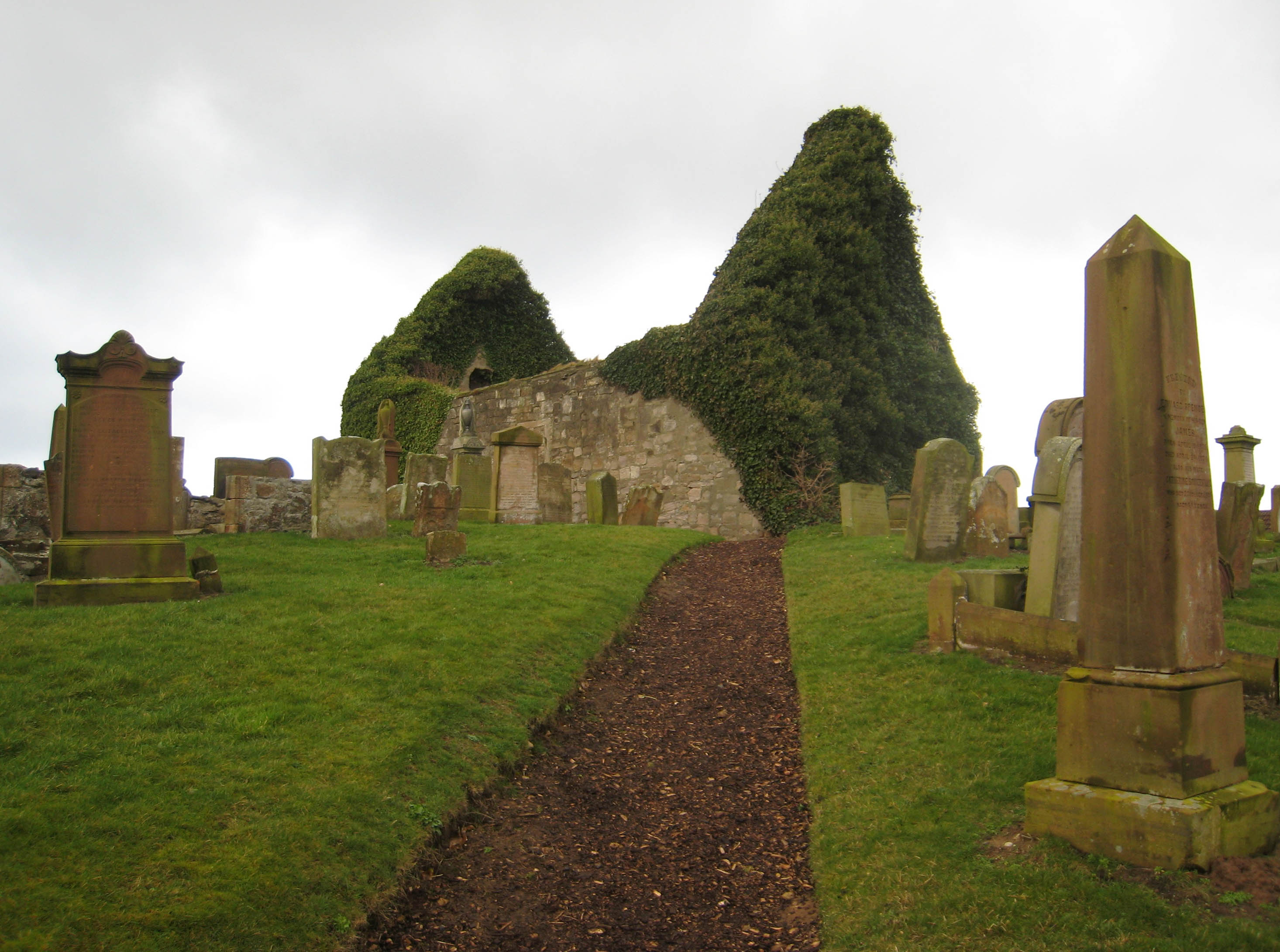 The old ruined church of St Nicholas in Prestwick, Scotland.